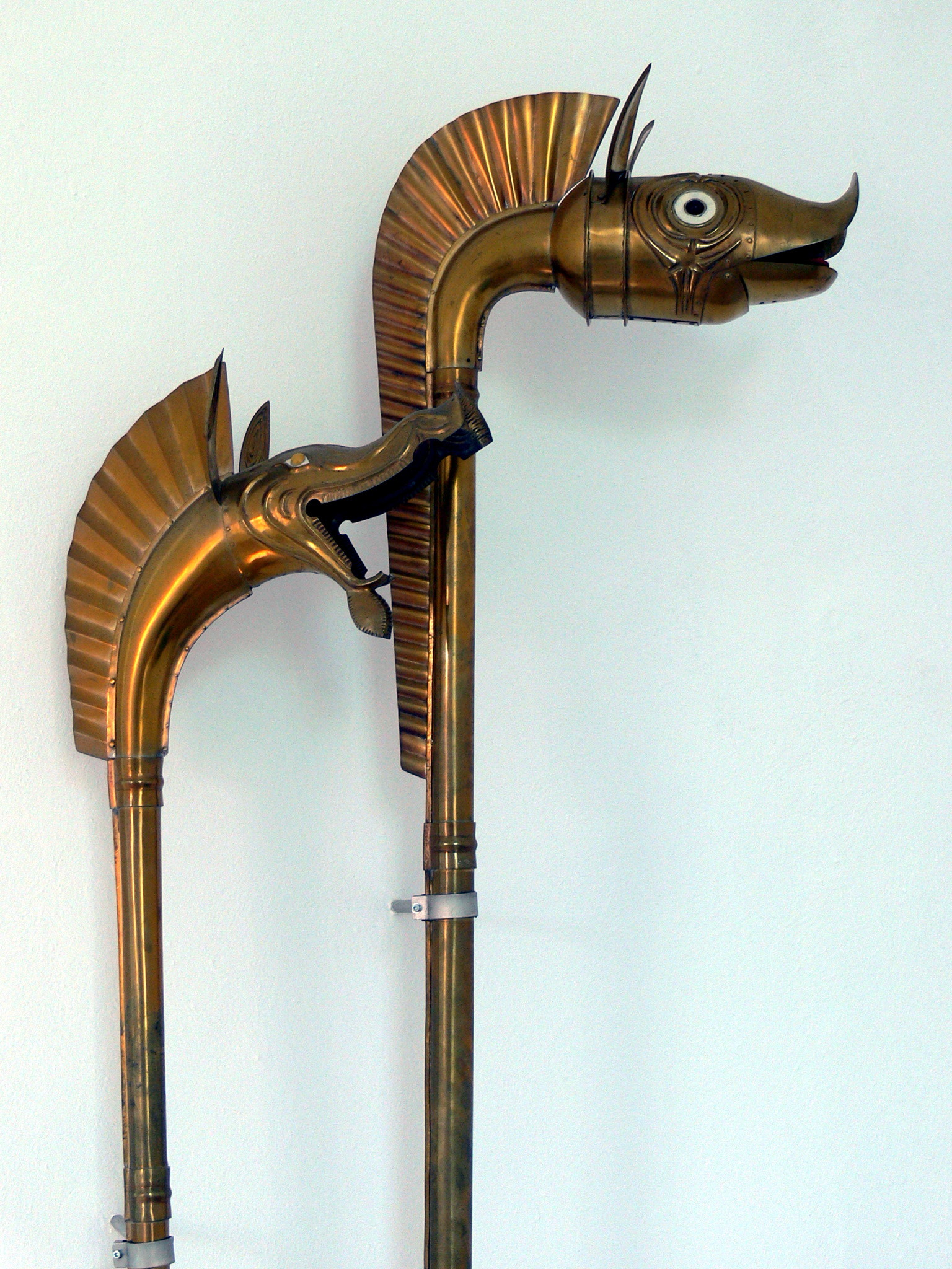 Celtic museum in Hallein ( Salzburg ). Reconstruction of a celtic carnyx ( music instrument ).